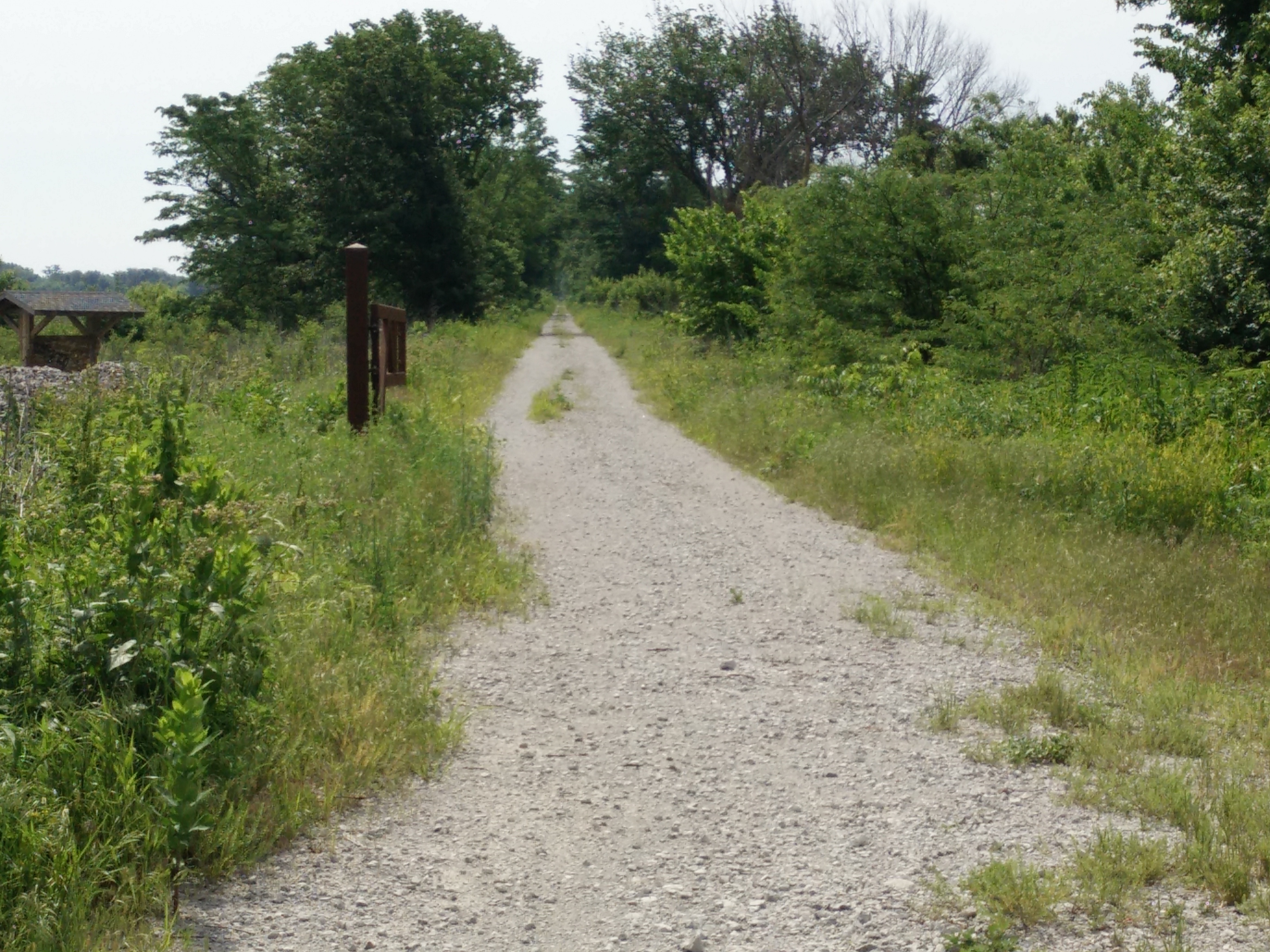 The Gran Fondo crosses the Rock Island Trail at several points. Jackson County has recently purchased the rail corridor for conversion to a trail as as the Katy Trail-Kansas City connector. This portion, southeast of Pleasant Hill, is owned by Missouri State Parks and will be part of Rock Island Trail State Park starting fall 2016. Tour of Kansas City Gran Fondo, May 30th, 2016